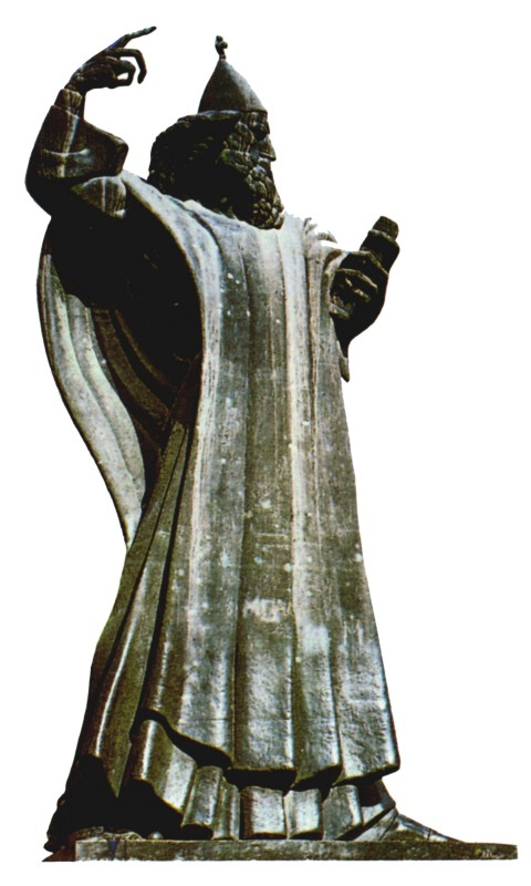 Statue of Grgur Ninski in Nin (Croatia). Permission to publish from user neoneo13, at the same time webmaster of